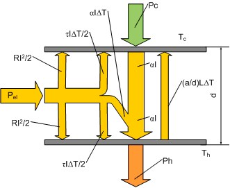 Energy fluxes in a Peltier Cell (thermodynamic model of the Thermoelectric Heat Pump)